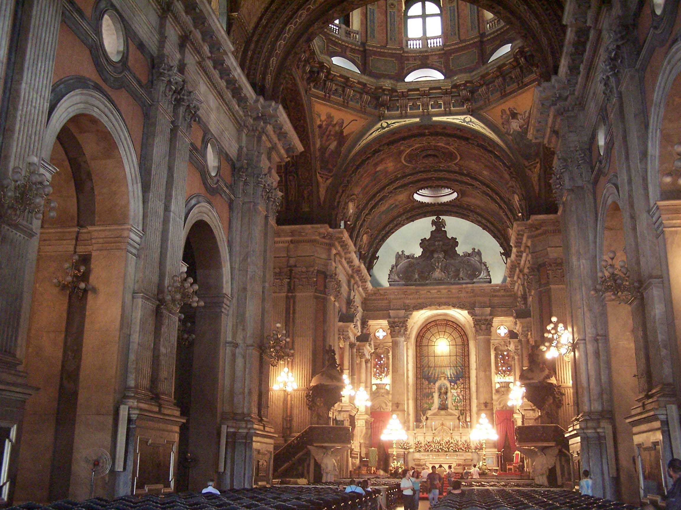 Inner view of the Candelária Church, Rio de Janeiro, Brazil.